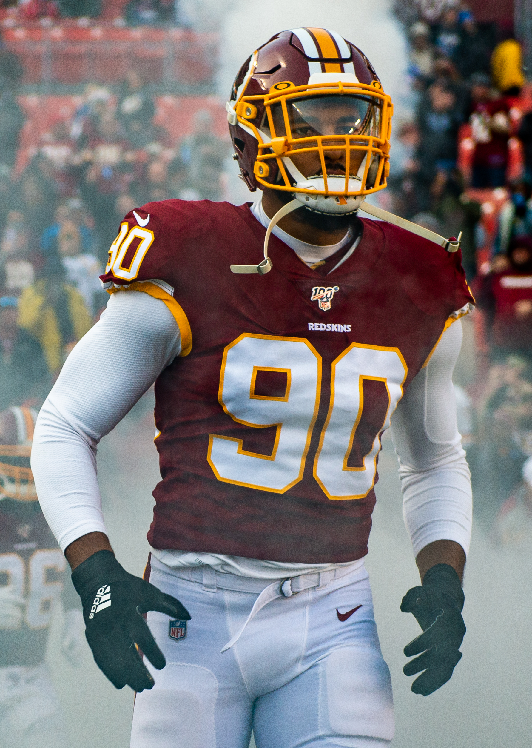 In 2019